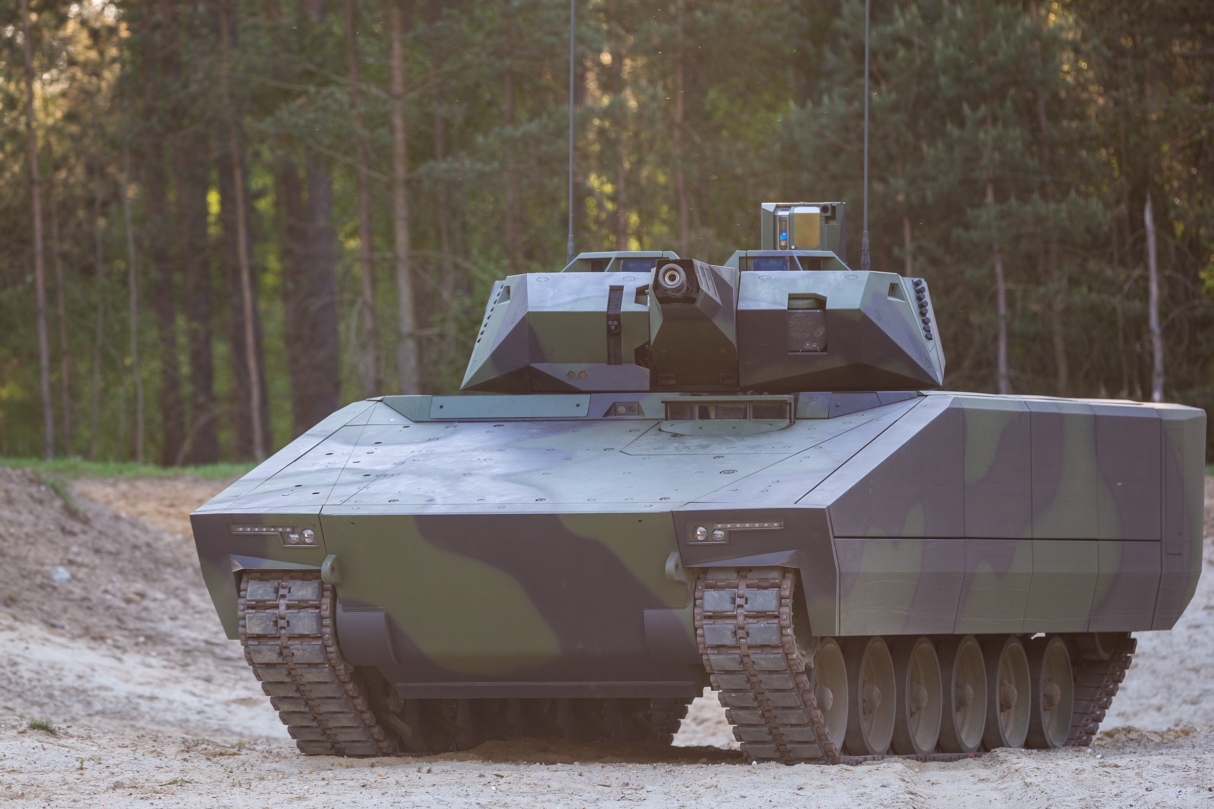 Rheinmetall Lynx Fahrzeug 1DMJ1874